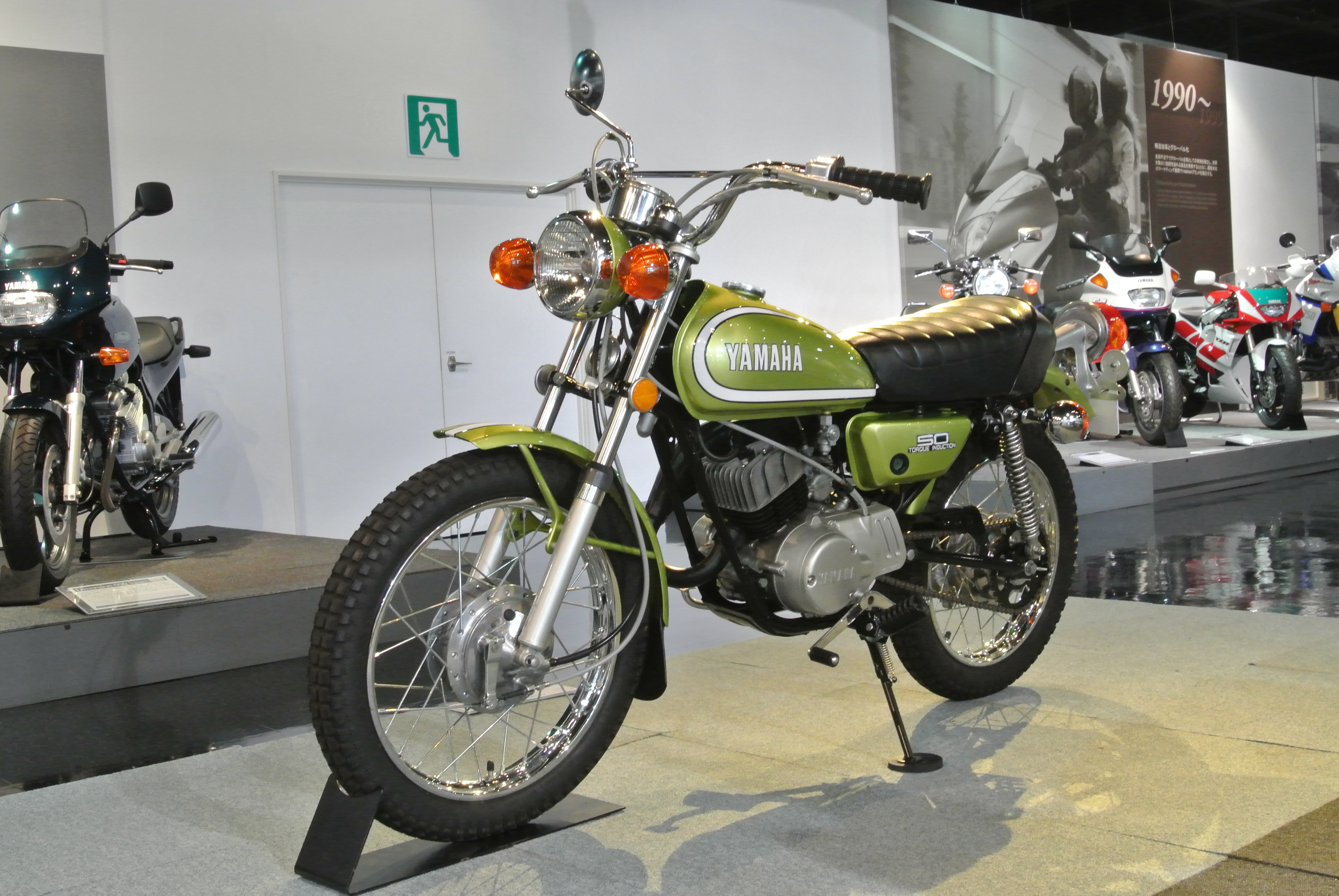 1972 Yamaha GT50 in the Yamaha Communication Plaza.